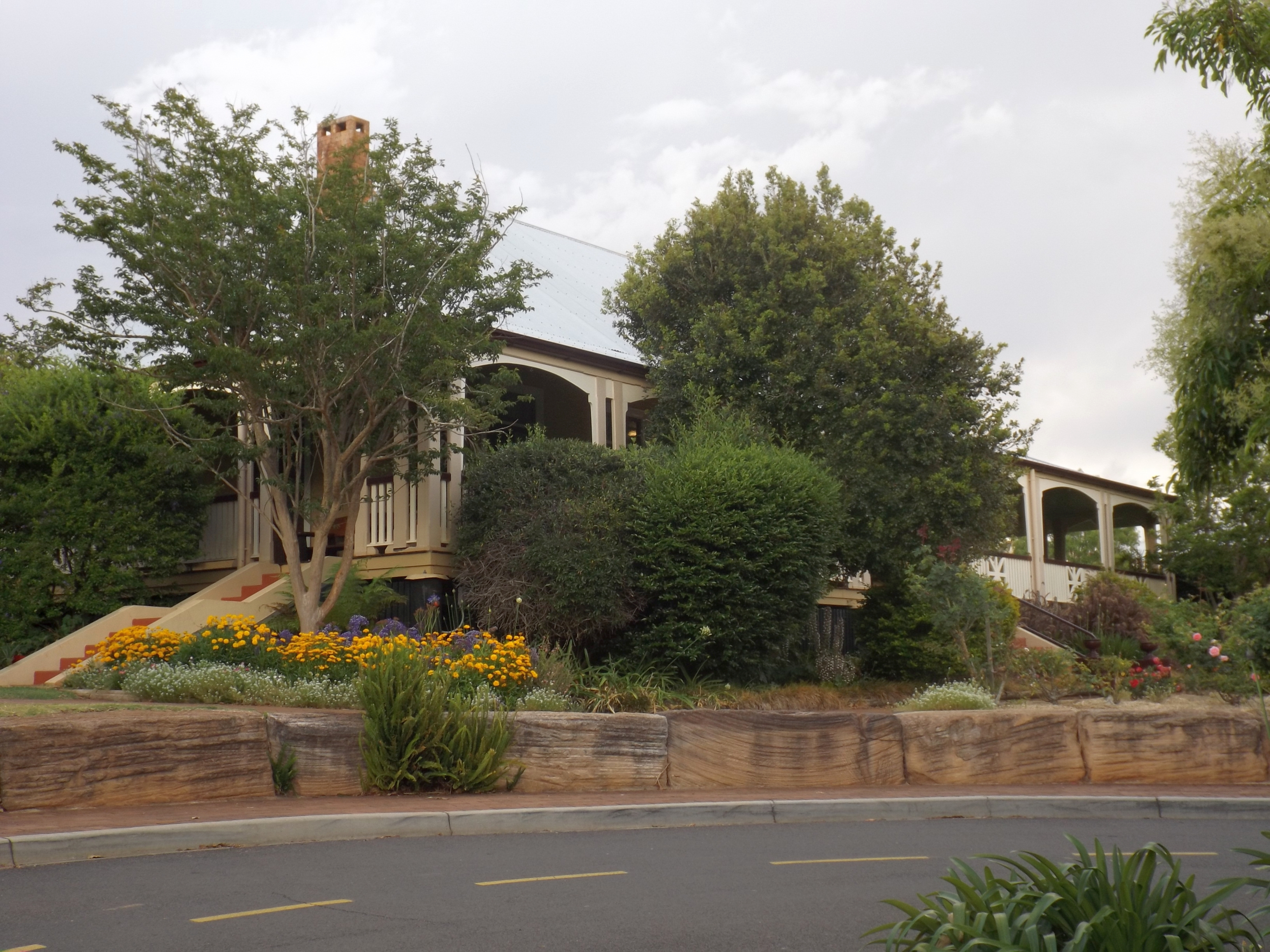 Photo of Cameron Homestead at Fairholme College in East Toowoomba, Queensland, Australia.